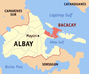 Locator map of Bacacay in Albay, Philippines.